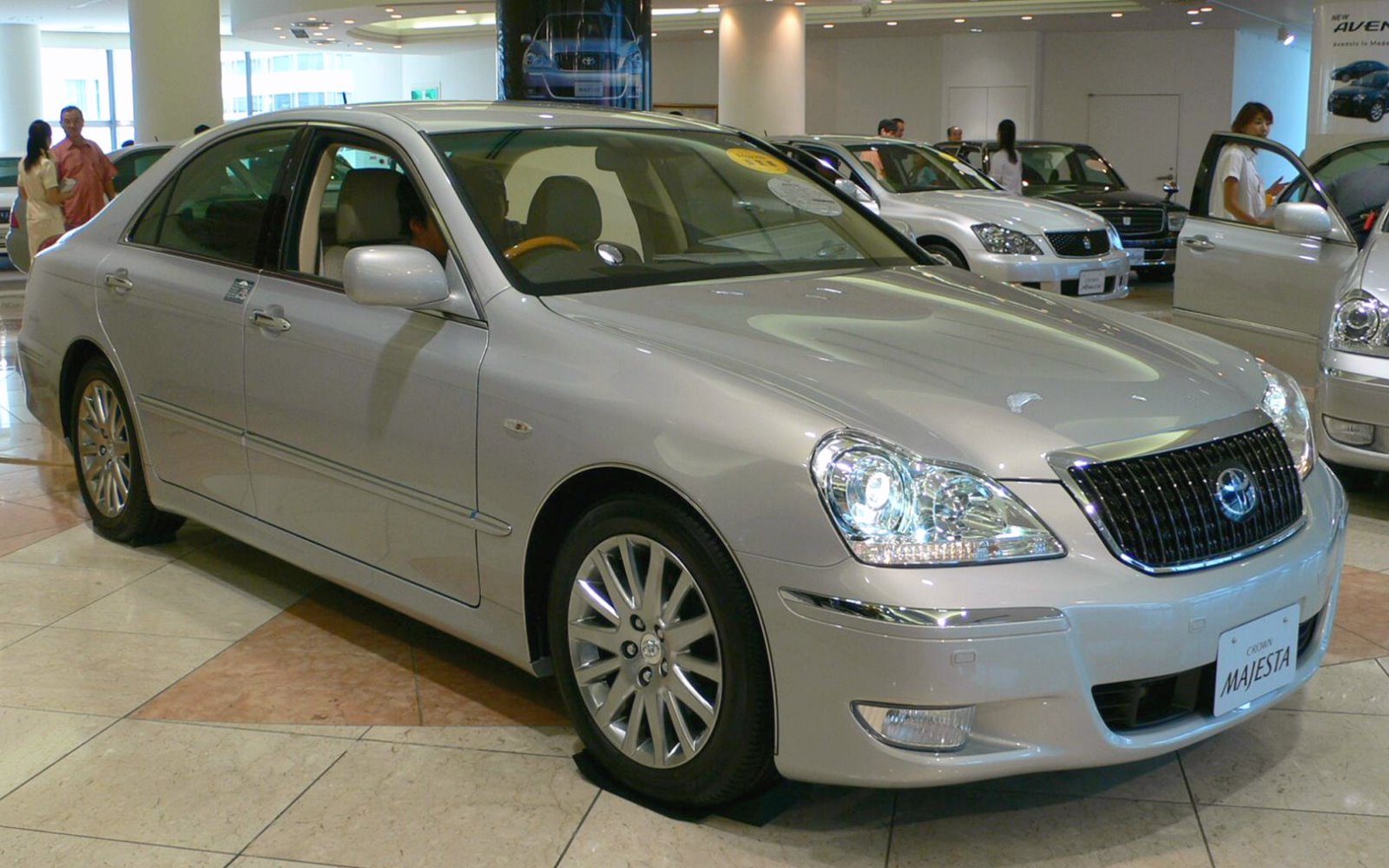 Toyota Crown Majesta(2006 -) photgraphed in AMLUX